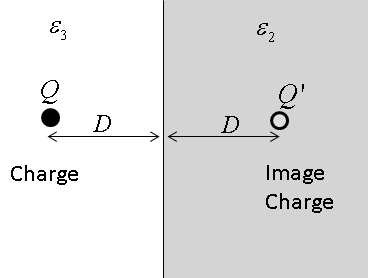 a system of an electrical charge and a polarizable dielectric medium for the Lifshitz-Van-der-Waals wikipedia page.